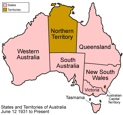 Map of the states of Australia as they have been since 1931. On June 21 1931, North Australia and Central Australia were remerged into Northern Australia, giving us the map we have today. Made by User:Golbez.